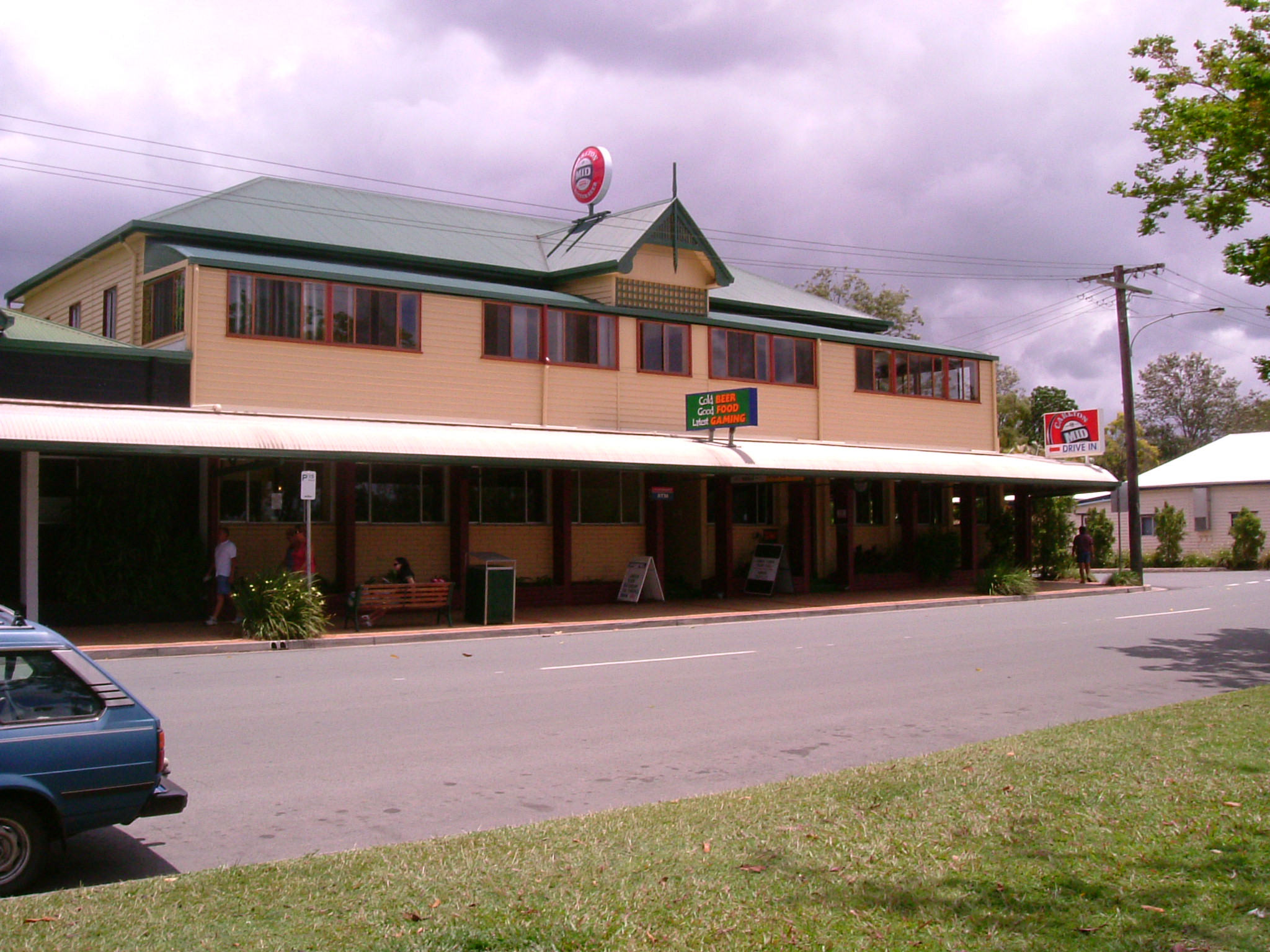 Landsborough Pub, opposite the railway station. by Arnzy 06:06, 8 December 2006 (UTC)